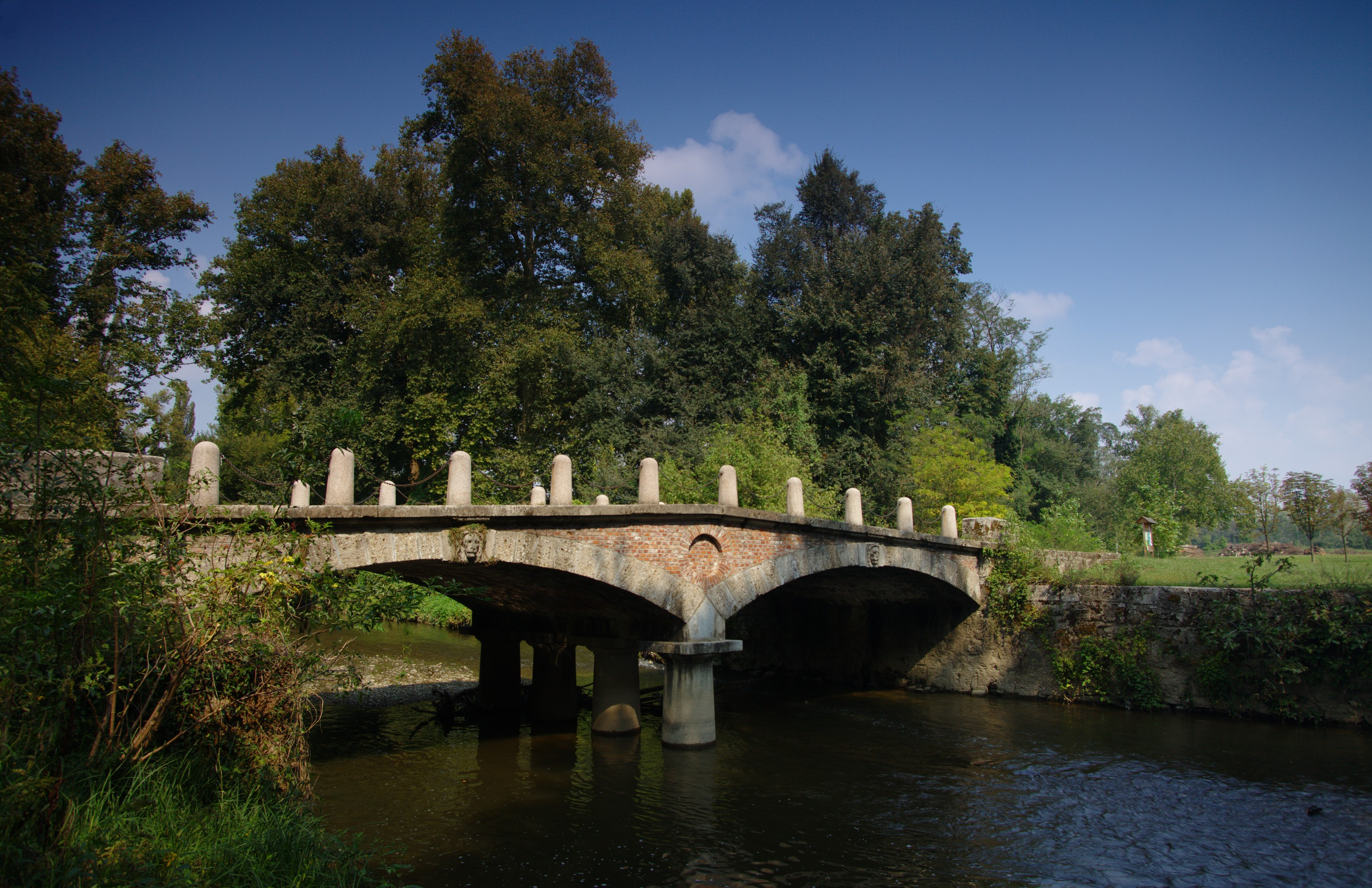 "Il ponte delle Catene": a bridge over the river Lambro in Monza Park, Monza, Italy.